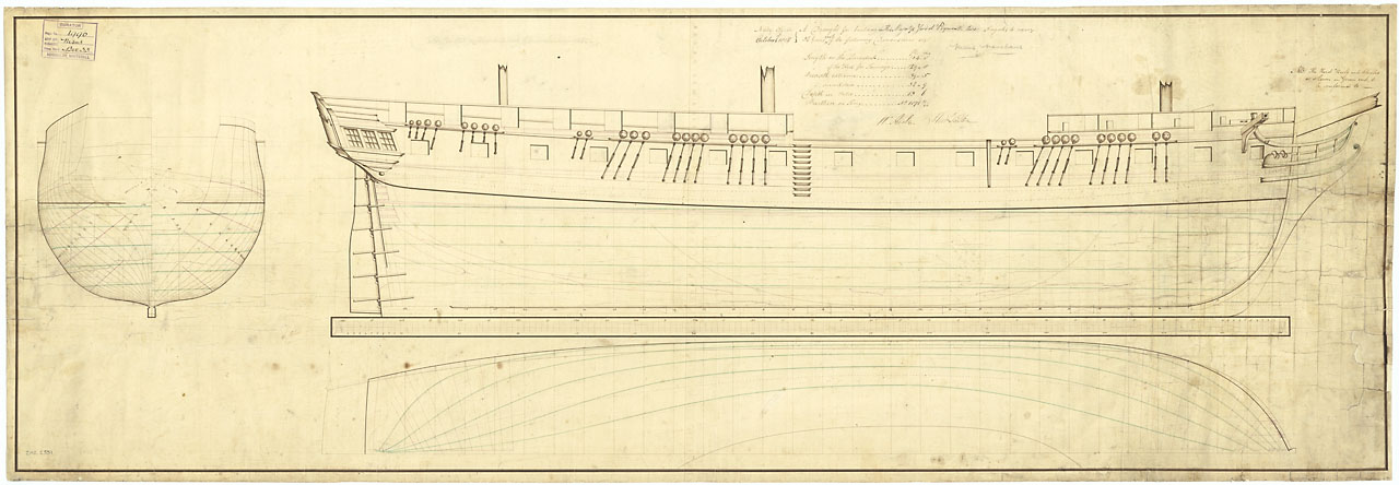 NISUS 1810 lines